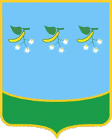 Coats of arms of Lipovodolinskij district (Ukraine)